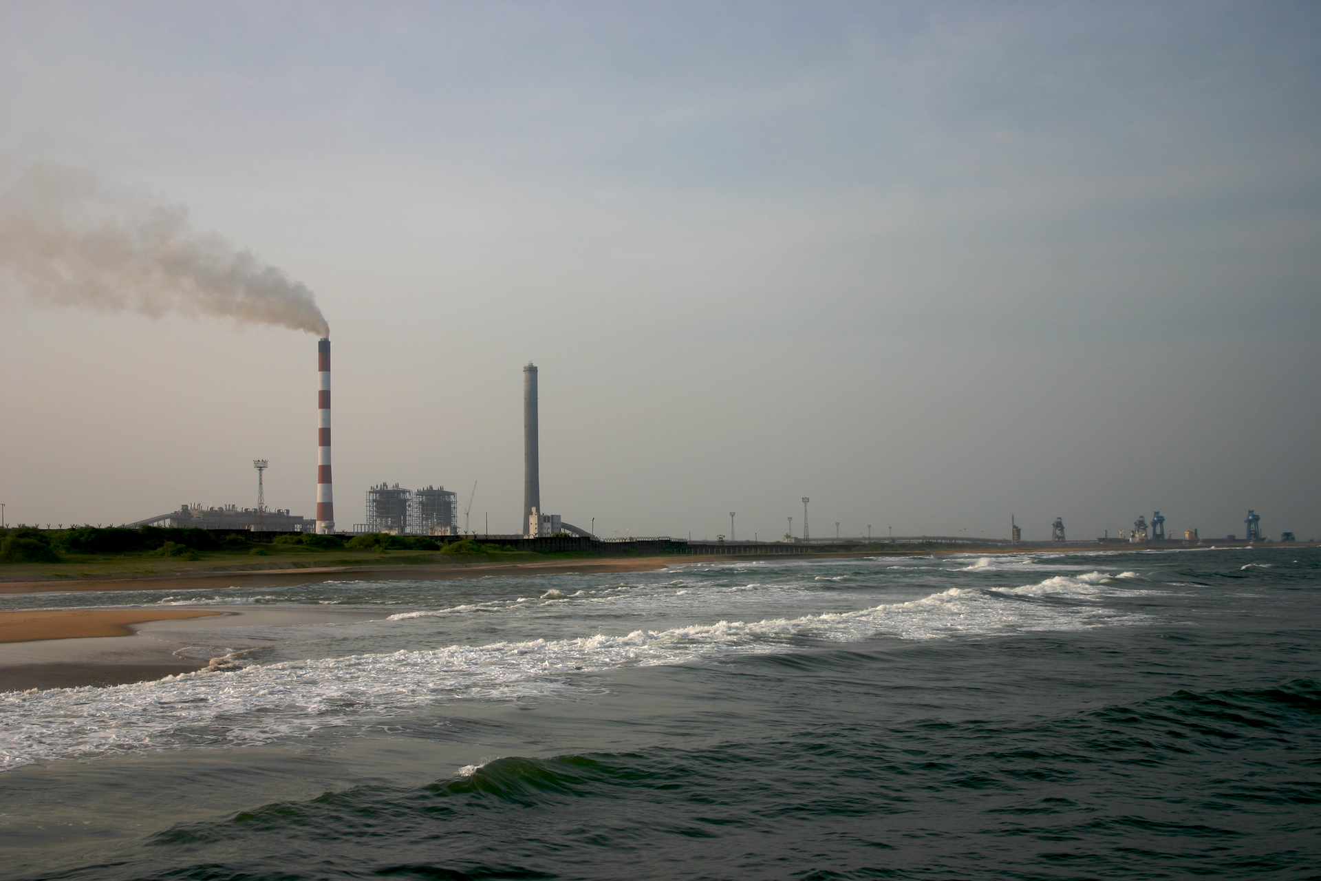 The North Chennai Thermal Power Station (left) and the Ennore Port (right) at Ennore, Madras. Read more.